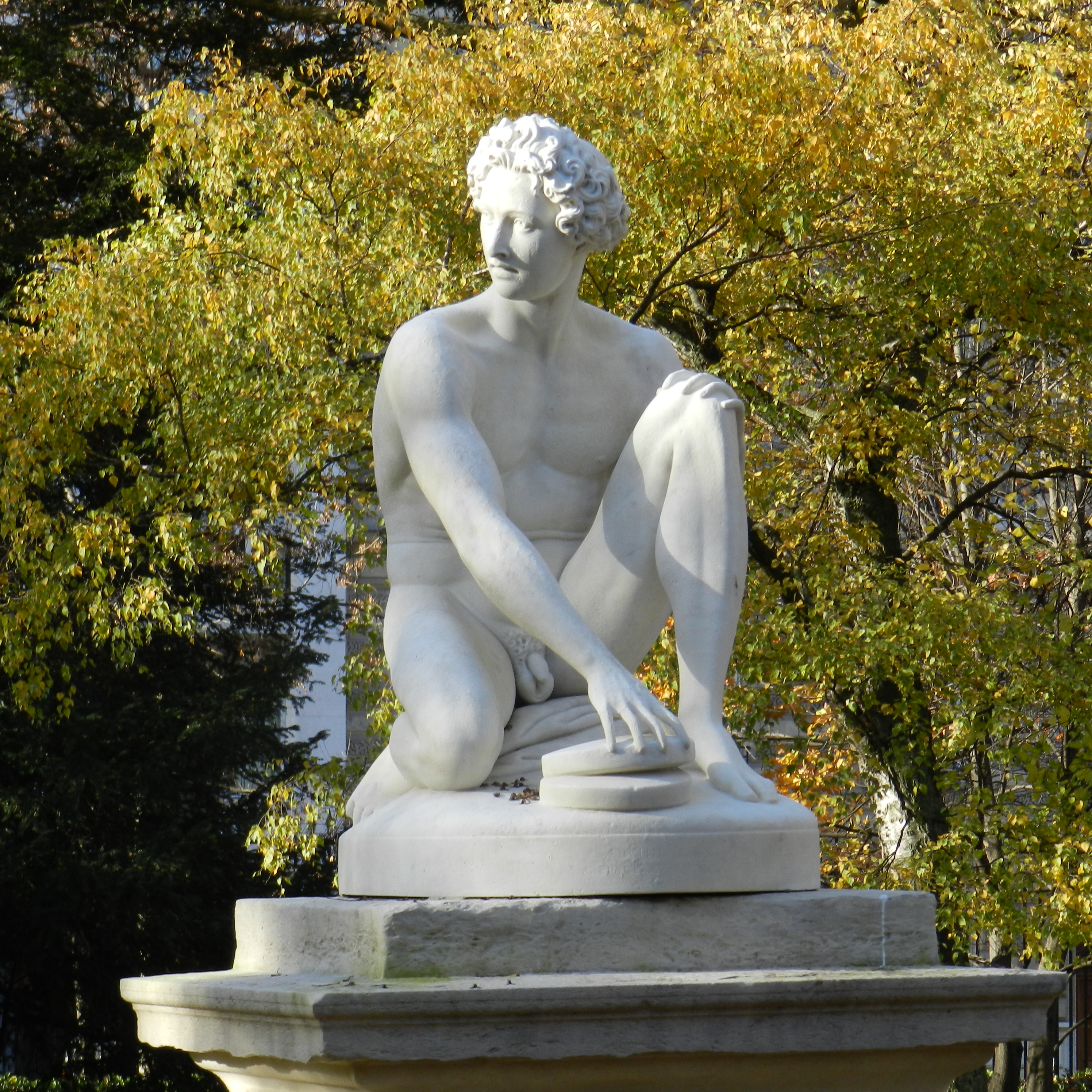 Archidamas by Henri Lemaire, Jardin du Luxembourg, Paris.